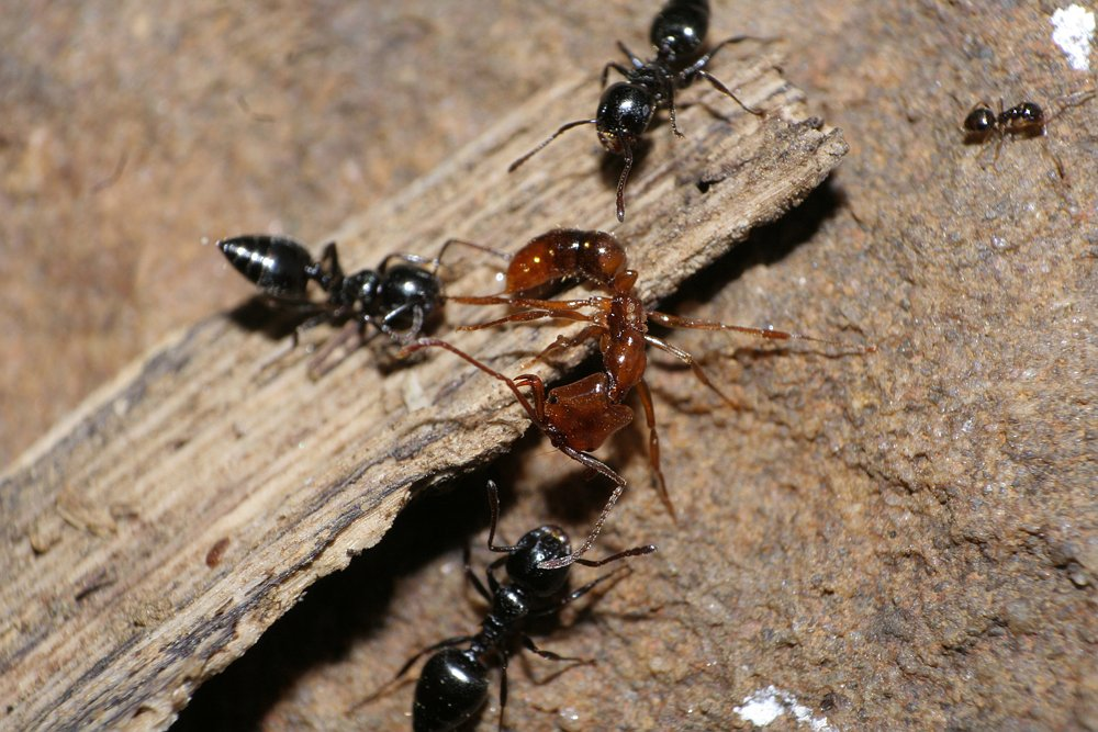 Anochetus ant attacked by three Crematogaster ants